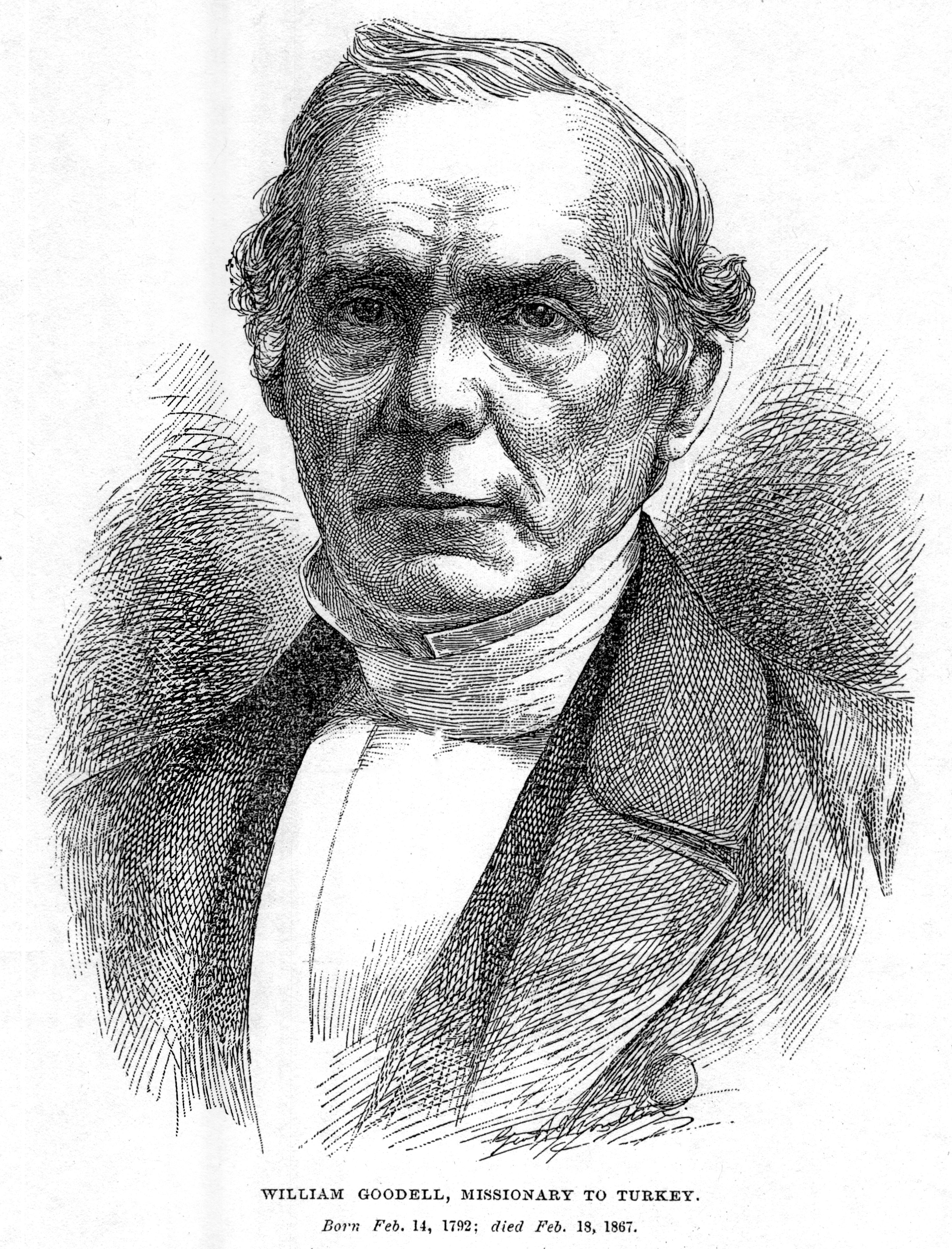 Posthumously released portrait of William Goodell, missionary to Turkey, and the first to translate the bible to Armeno-Turkish (the Turkish language writ in Armenian script).